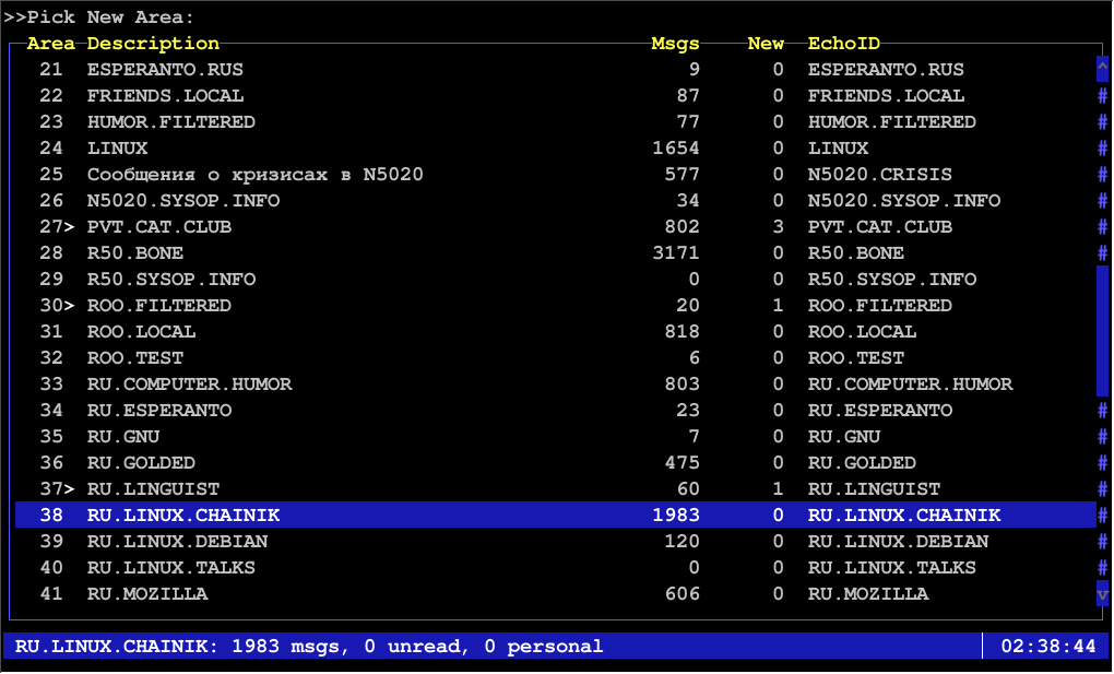 GoldED+, built from source code snapshot of 2006-03-27. Area list. The default “Example Language Definition File” is being used.